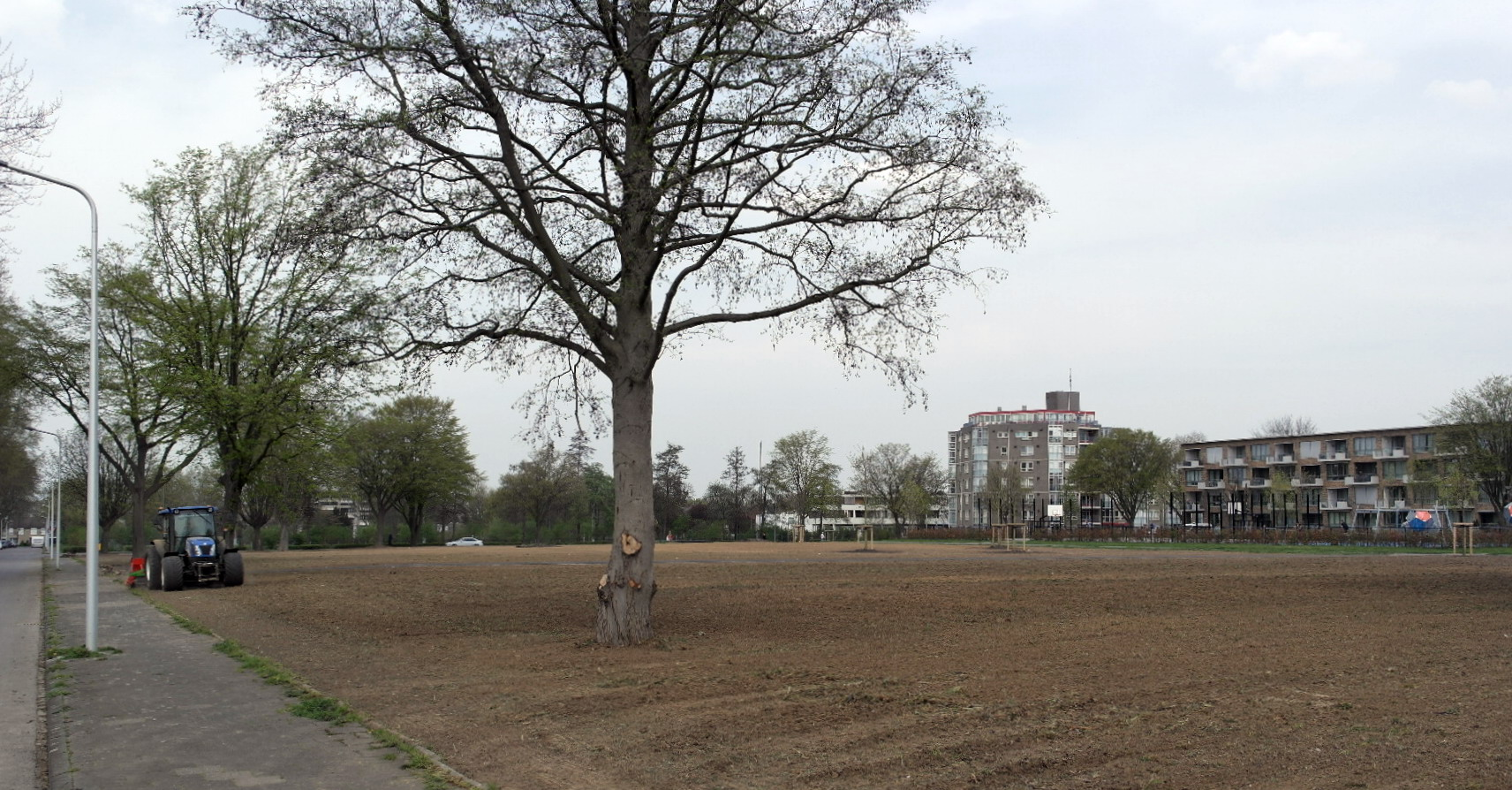 Maastricht, the Netherlands. View towards the northeast of neighbourhood park between Caberg and Malpertuis, here under reconstruction, Spring 2014.